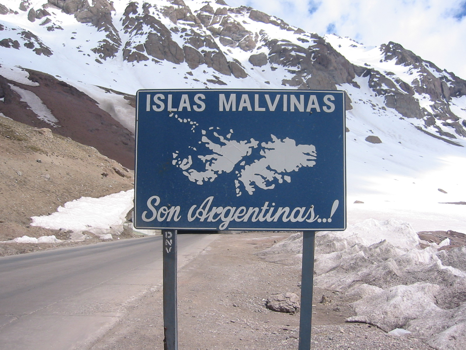 A road sign in the Argentinian province of Mendoza claiming the Islas Malvinas for Argentina.